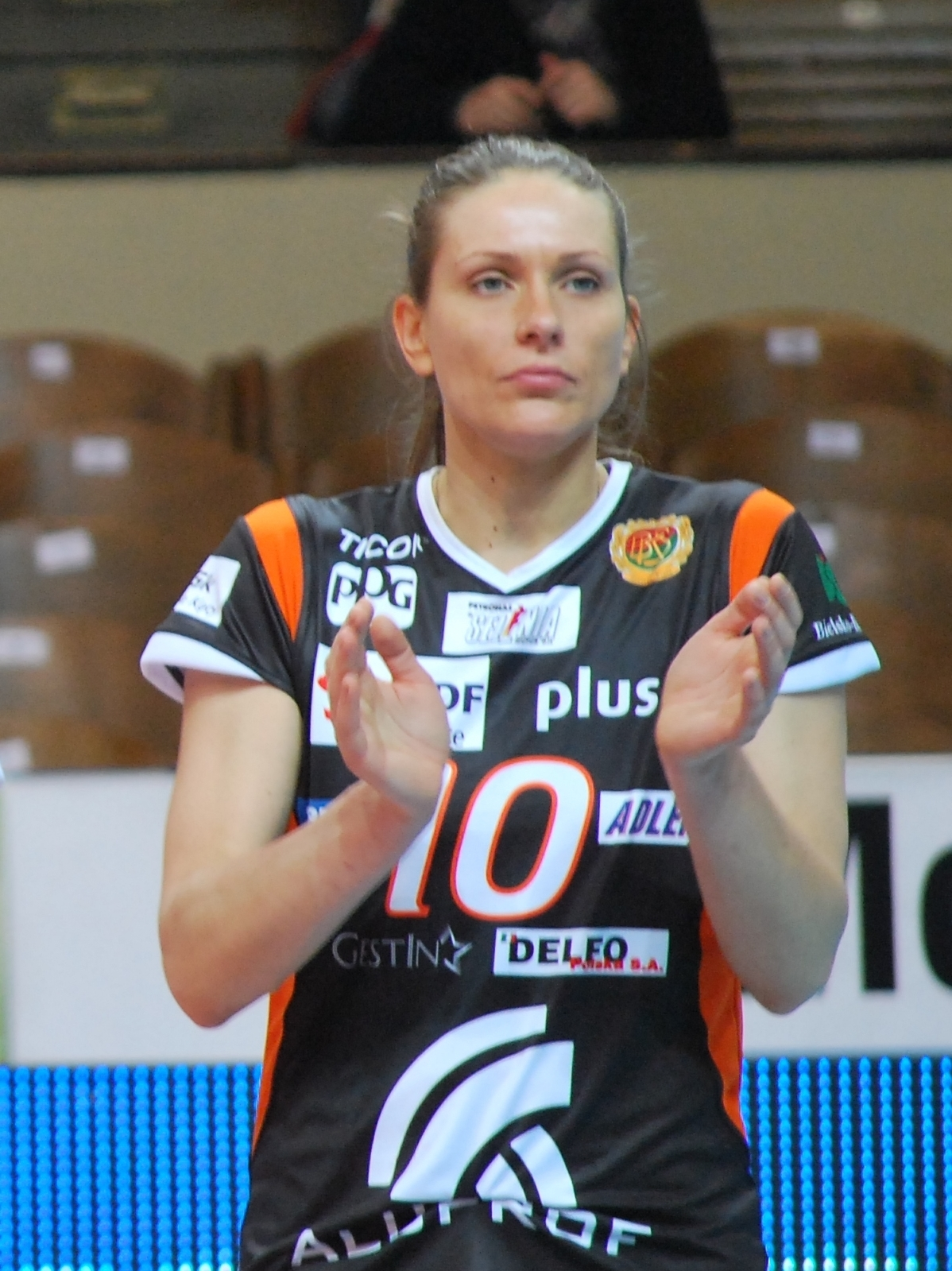 Jolanta Studzienna, polish volleyball player